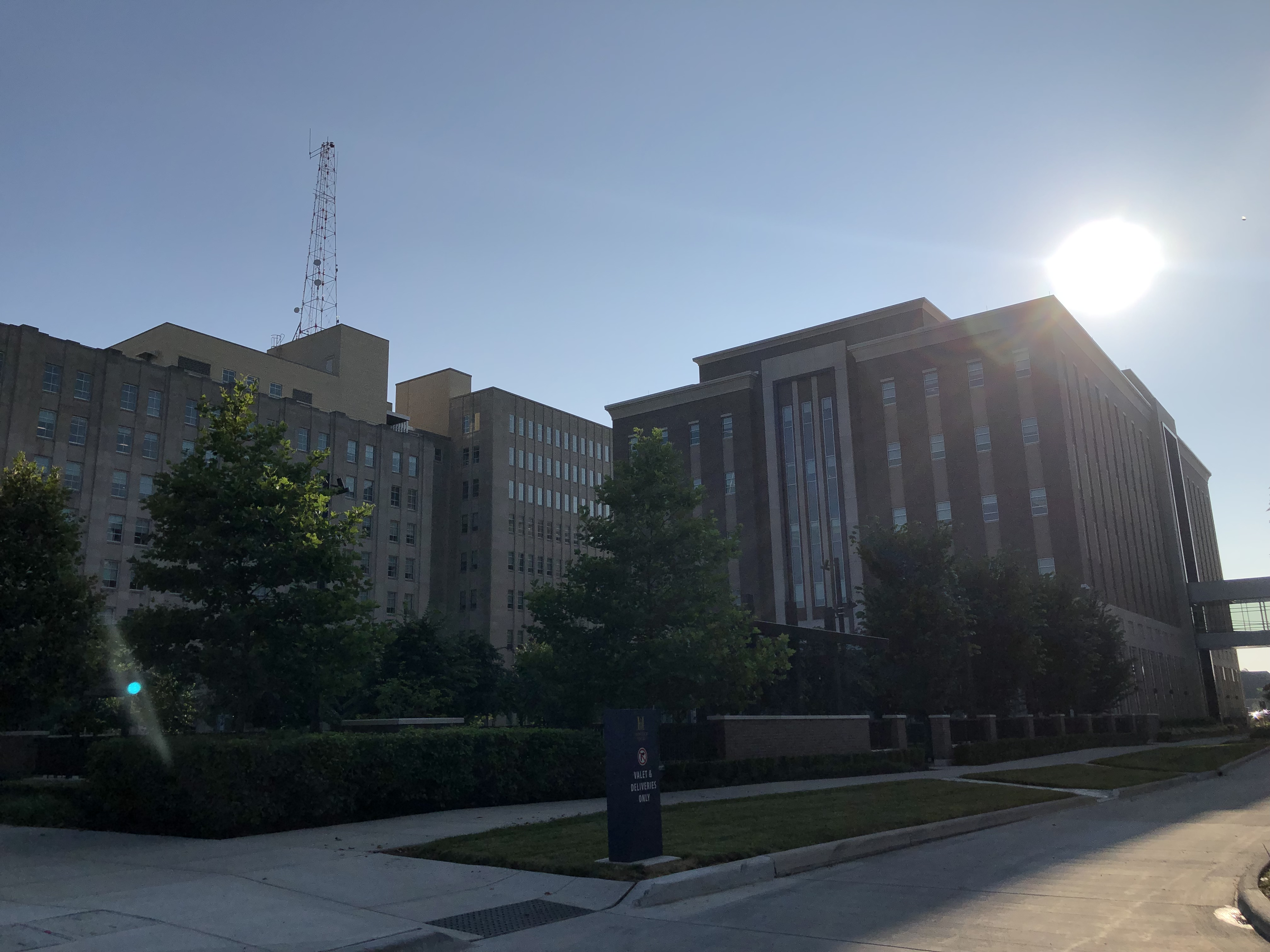 Marathon Petroleum Complex in the morning. Features the MLPX building from 2016. Taken from the Findlay's Main Street.